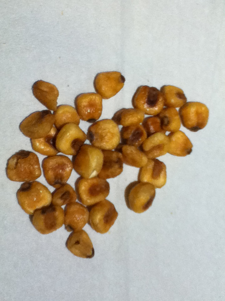 A close up of corn nuts (dehydrated corn snack.) Released under cc0 By:Alexmrb